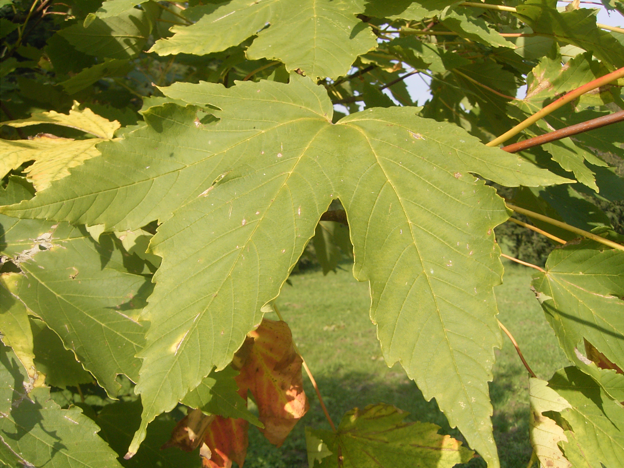 This photo shows Acer heldreichii Obs.: typo in filename